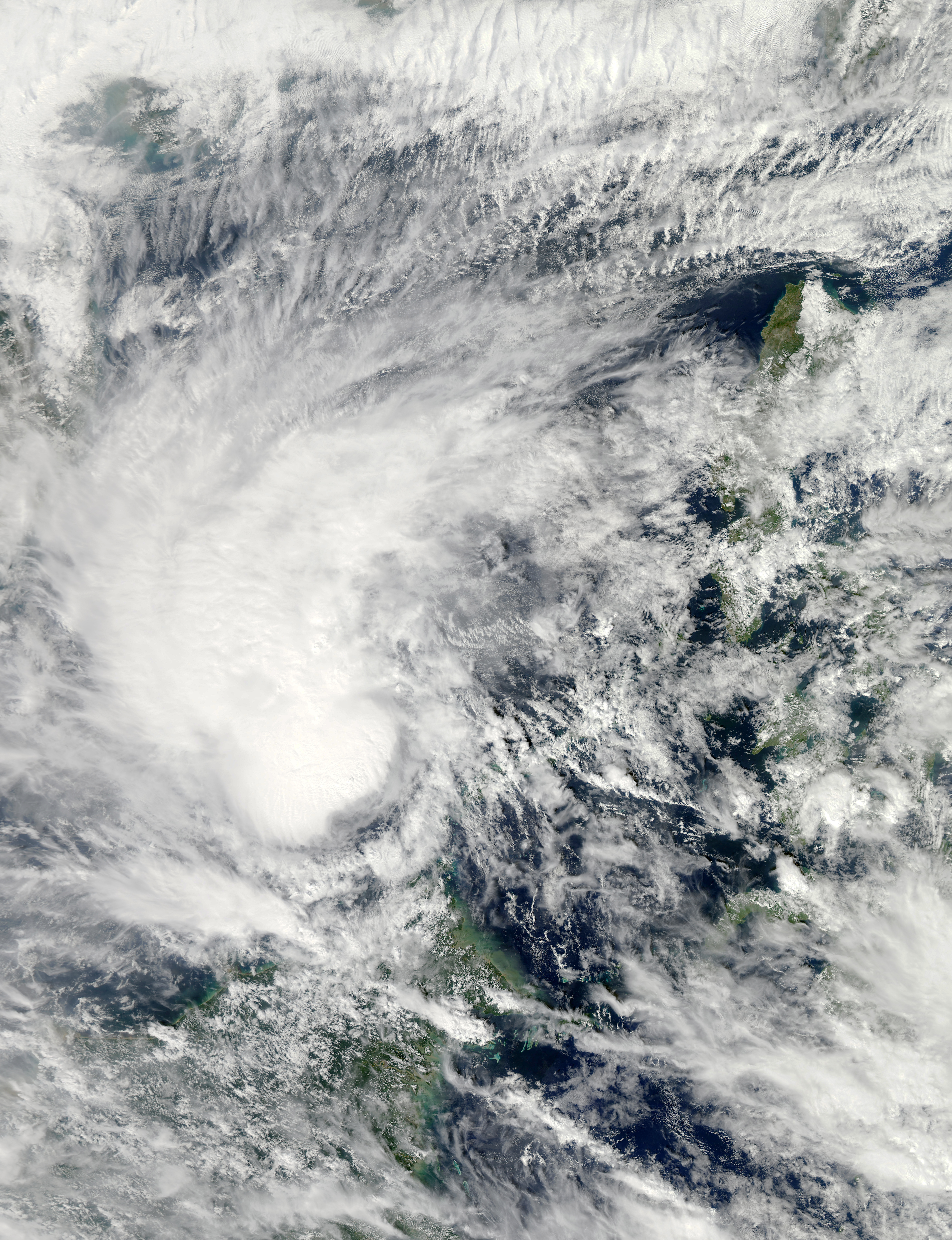 Tropical Storm Sonamu on January 4, 2013, with winds of 40 mph and a pressure of 998 millibars.